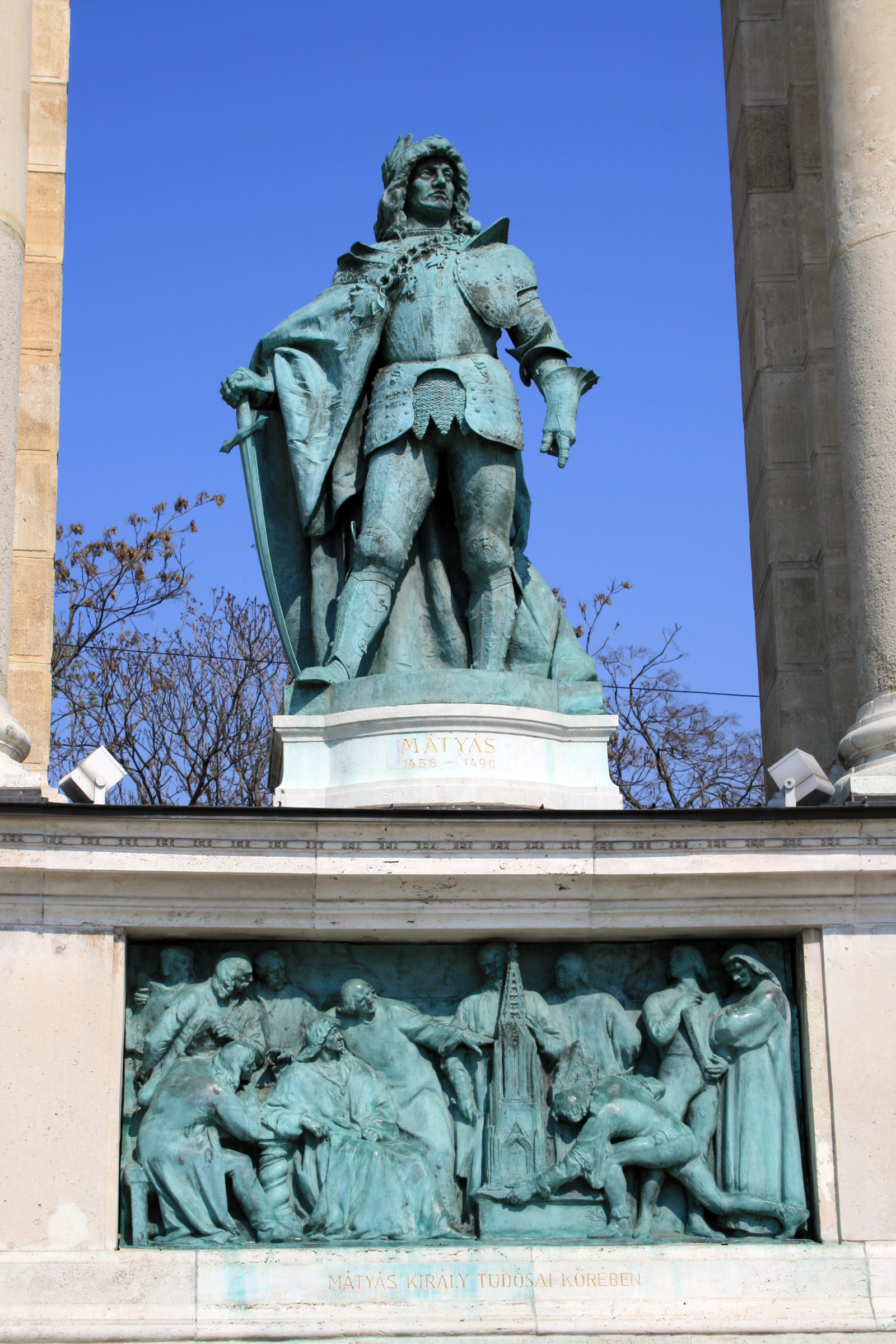 Statue of Matthias Corvinus of Hungary - Matthias Corvinus, Millenium Monument on Heroes' square, Budapest, Budapest, Hungary